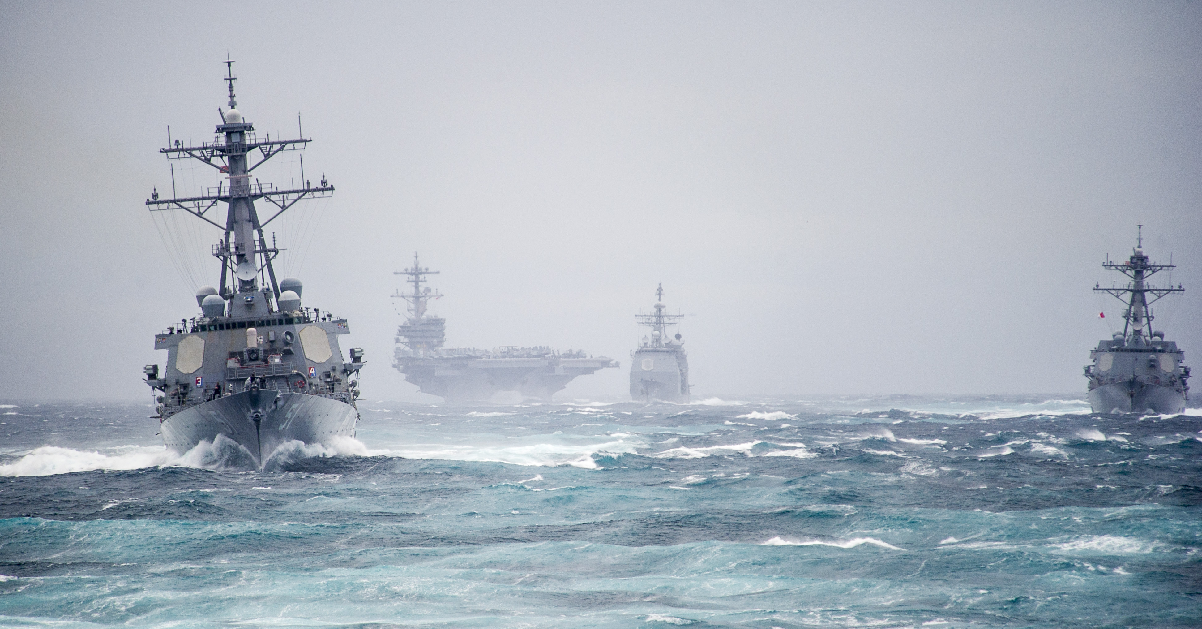 131210-N-VC599-169 ATLANTIC OCEAN (Dec. 10, 2013) Ships from the George H.W. Bush Carrier Strike Group simulate a strait transit. The strike group is conducting a pre-deployment evaluation. (U.S. Navy Photo by Mass Communication Specialist 2nd Class Justin Wolpert/Released)